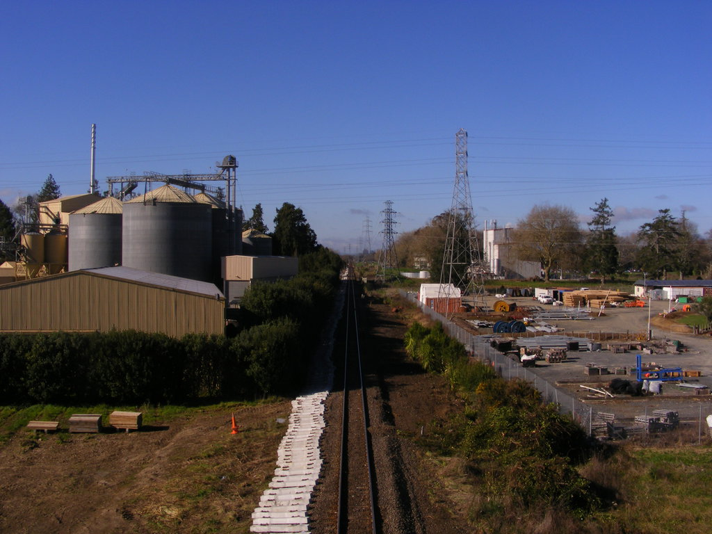 Trains can be passing under overbridge/Wairere drive expressway in Hamilton, NZ.